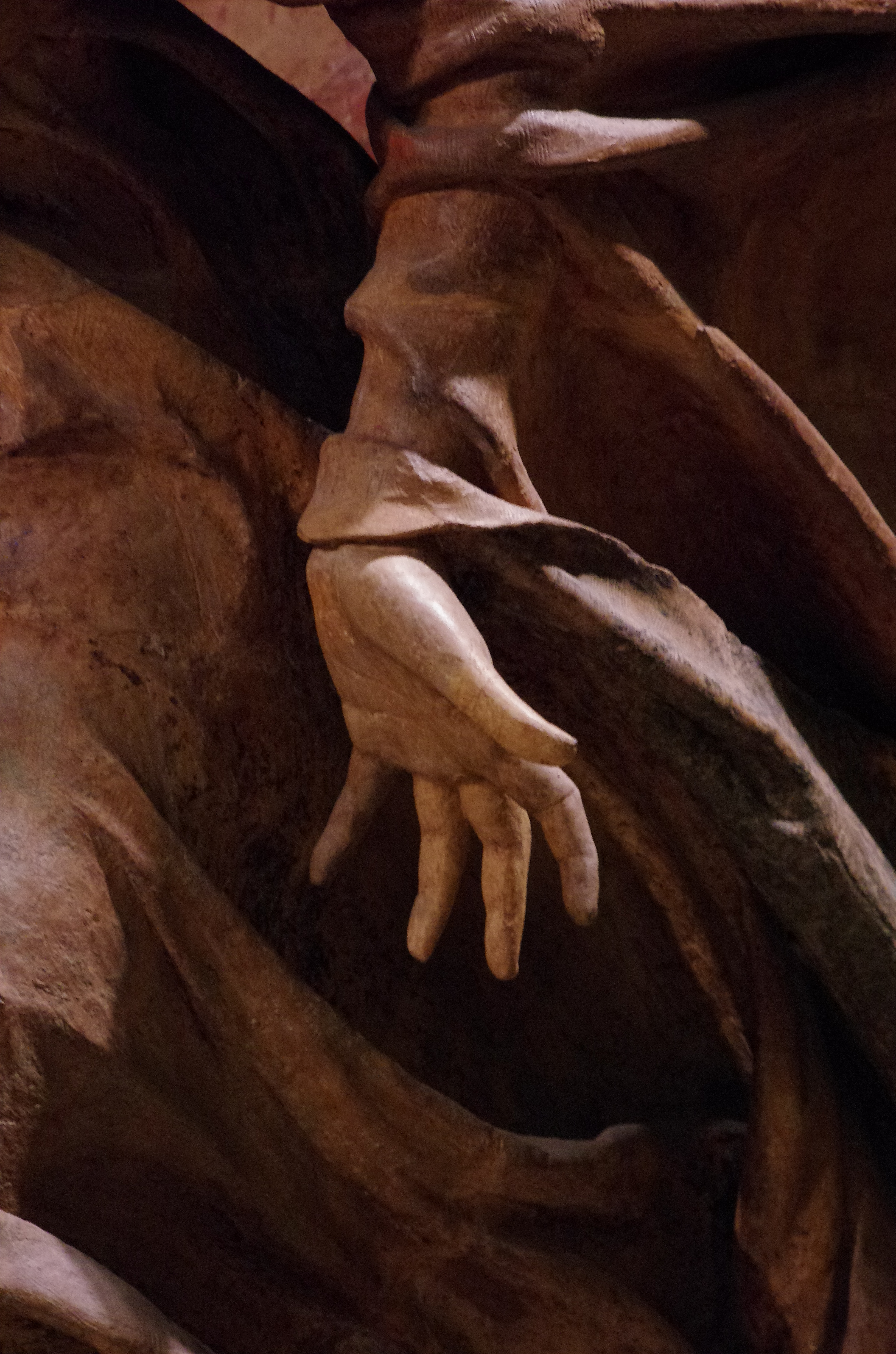 2016 Santa Maria della Vita a Bologna (Italy), Photo Paolo Villa VR, Pietà Compianto sul Cristo morto di Niccolò dell'Arca, dettaglio della mano, scultura, terracotta - fittile, grandezza naturale, primo Rinascimento, tardo Gotico, profondi pieni e vuoti (sporgenze - rientranze), pathos, panneggio bagnato, disperazione, compassione, ribellione, orrore, incredulità , linee spezzate, vento, luce contrastata Camera-corpo: PENTAX K-5 II Lens-obiettivo: Pentax SMC DA 55-300mm f/4- 5.8 ED